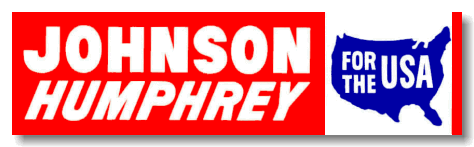 Campaign logo of Lyndon B. Johnson 1964